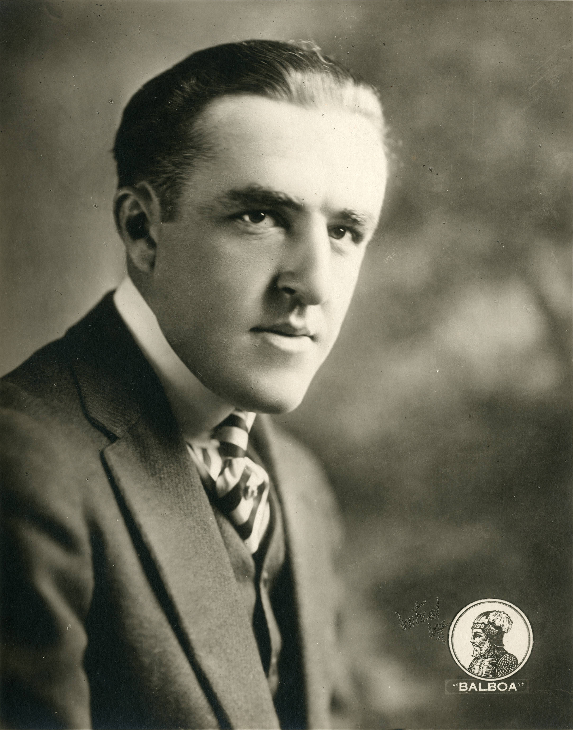 Motion picture actor Edward J. Brady aka Ed Brady (1889 – 1942). Subjects: actors